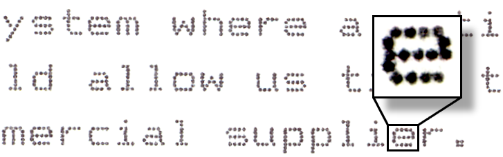 Close-up of text from a dot-matrix printer. This is representative of the most basic output from a 9-pin printer (or one in draft mode), without NLQ. Note the enlargement of single letter for detail. Scale: This image represents an area of approximately 4.5 x 1.5 cm.